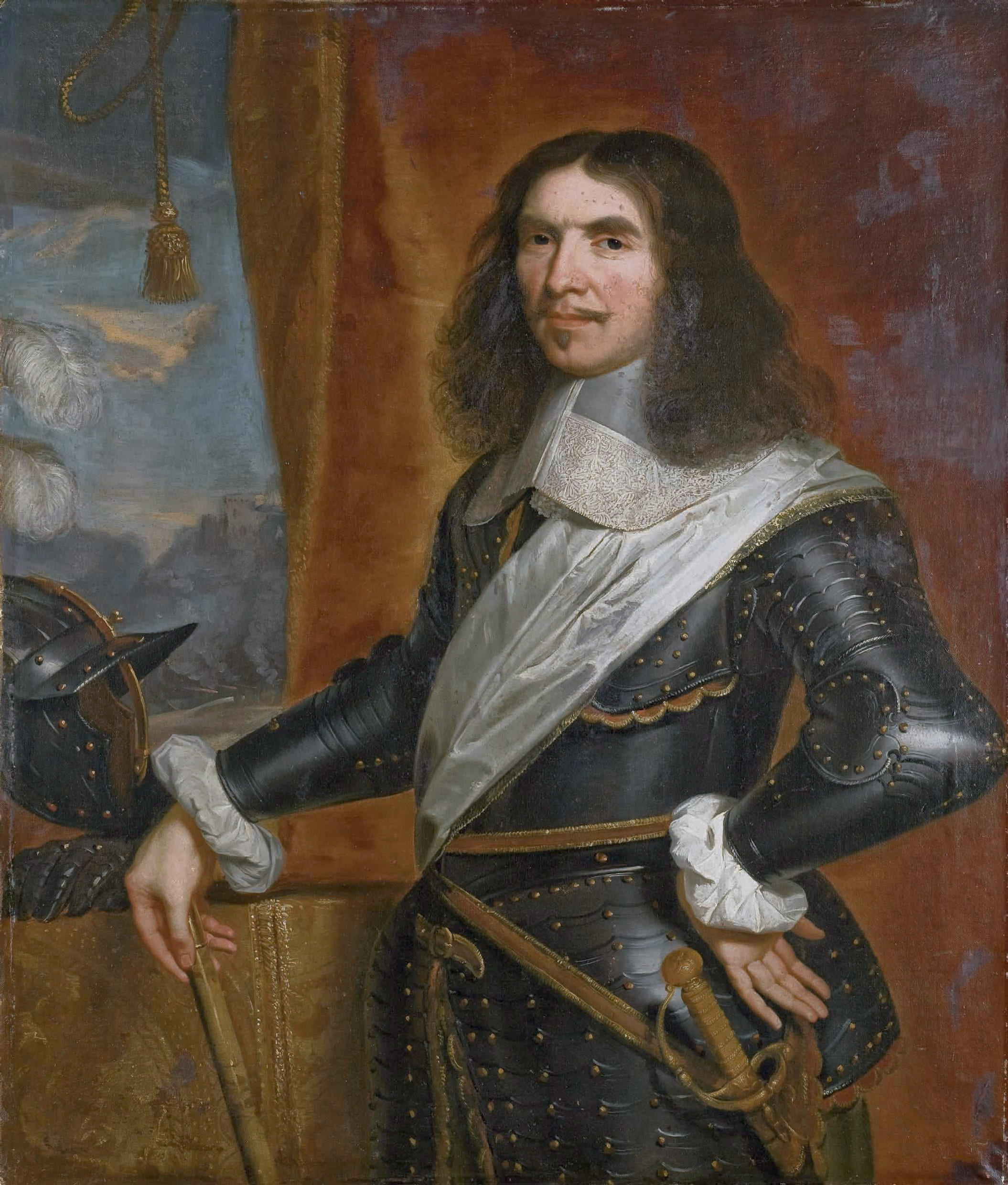 Henri de la Tour d'Auvergne, Vicomte de Turenne 108.5 x 90 cm oil on canvas 17th century